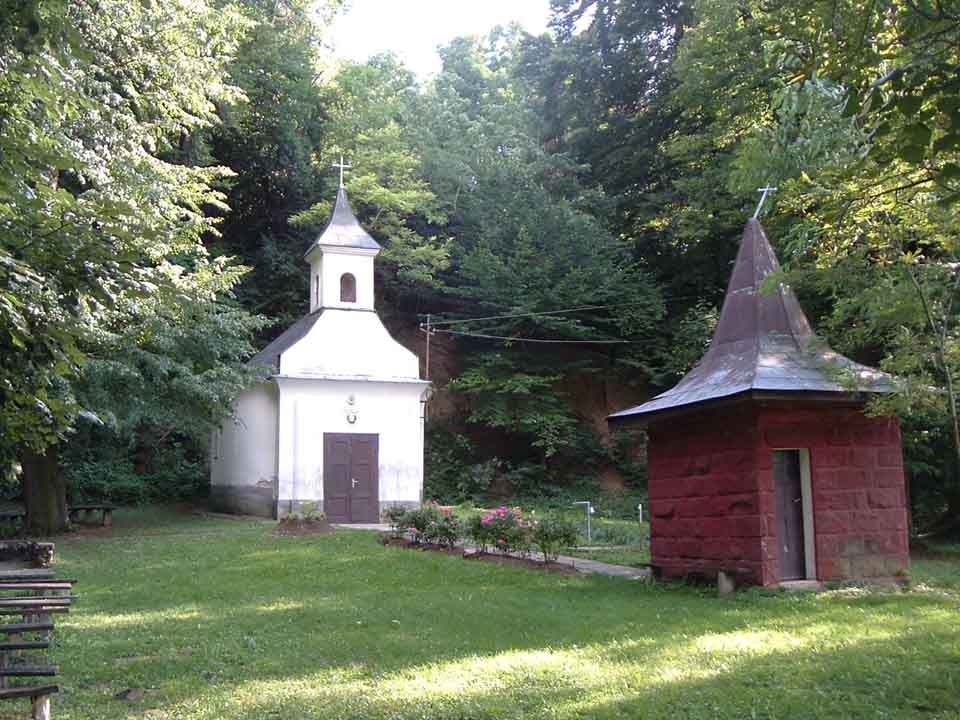 The place of pilgrimage of Holy Spring in Jásd , Hungary